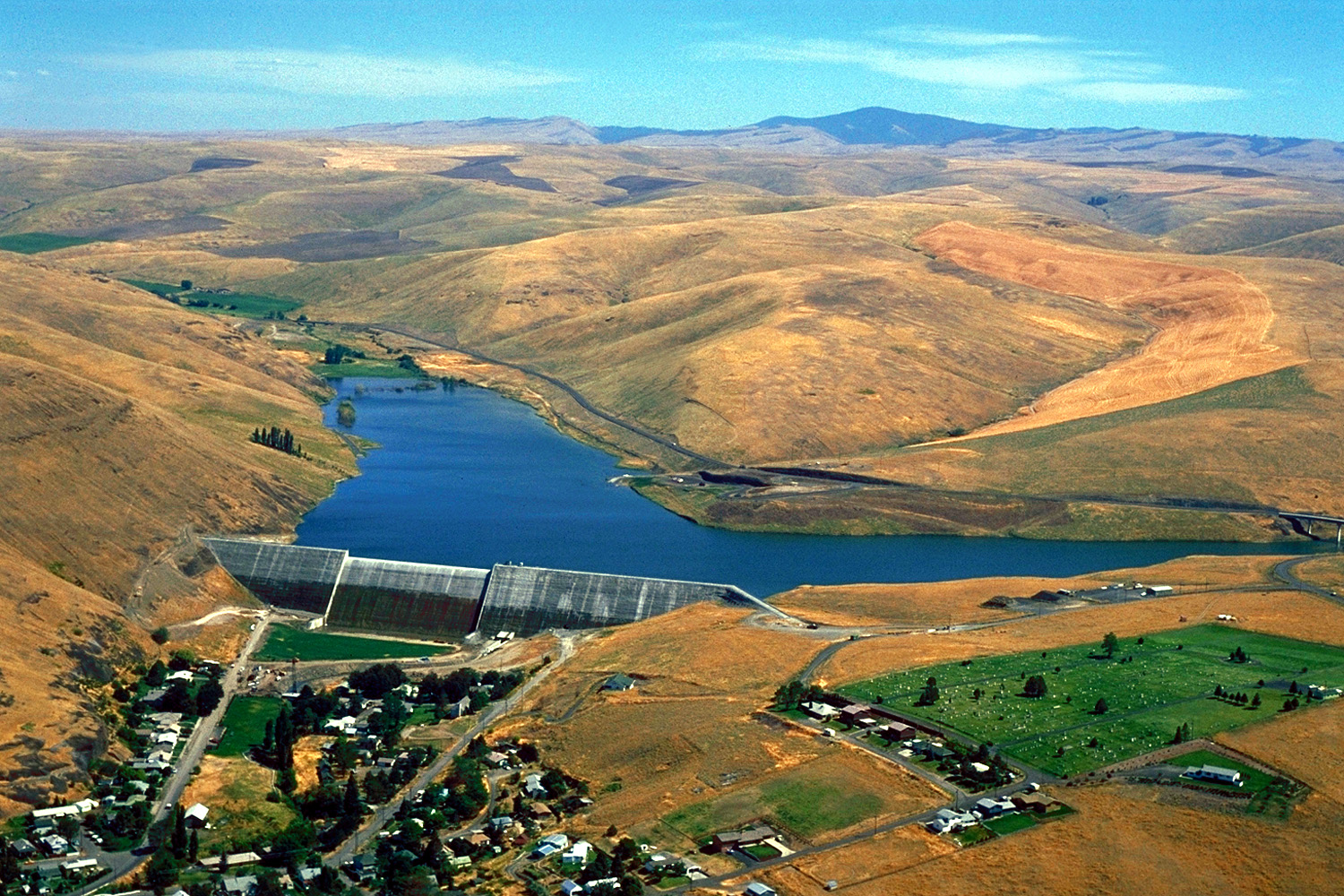 Willow Creek Dam and Lake at Heppner, Oregon, USA. U.S. Army Corps of Engineers website